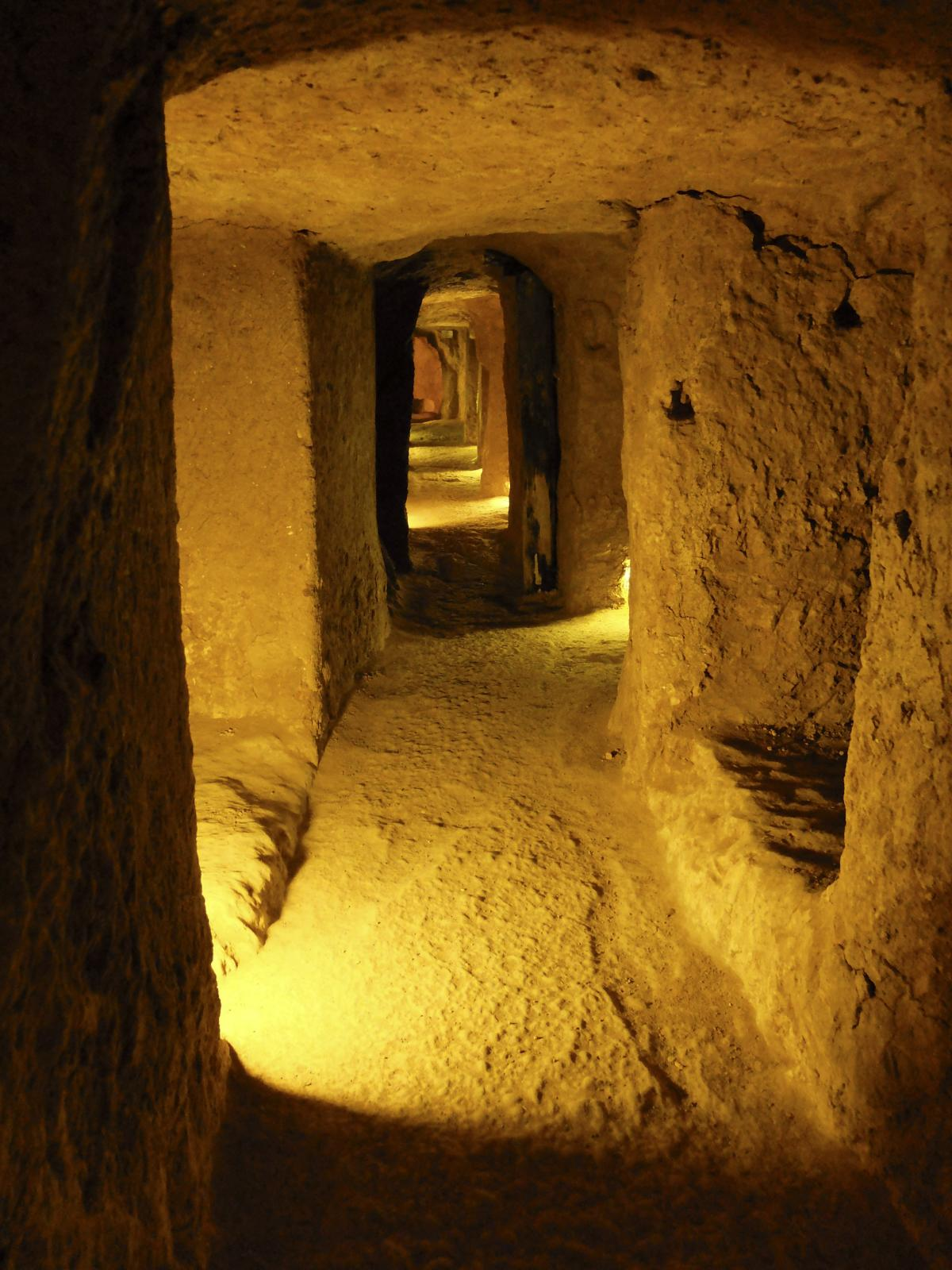 Nushabad, the tunnels under the city